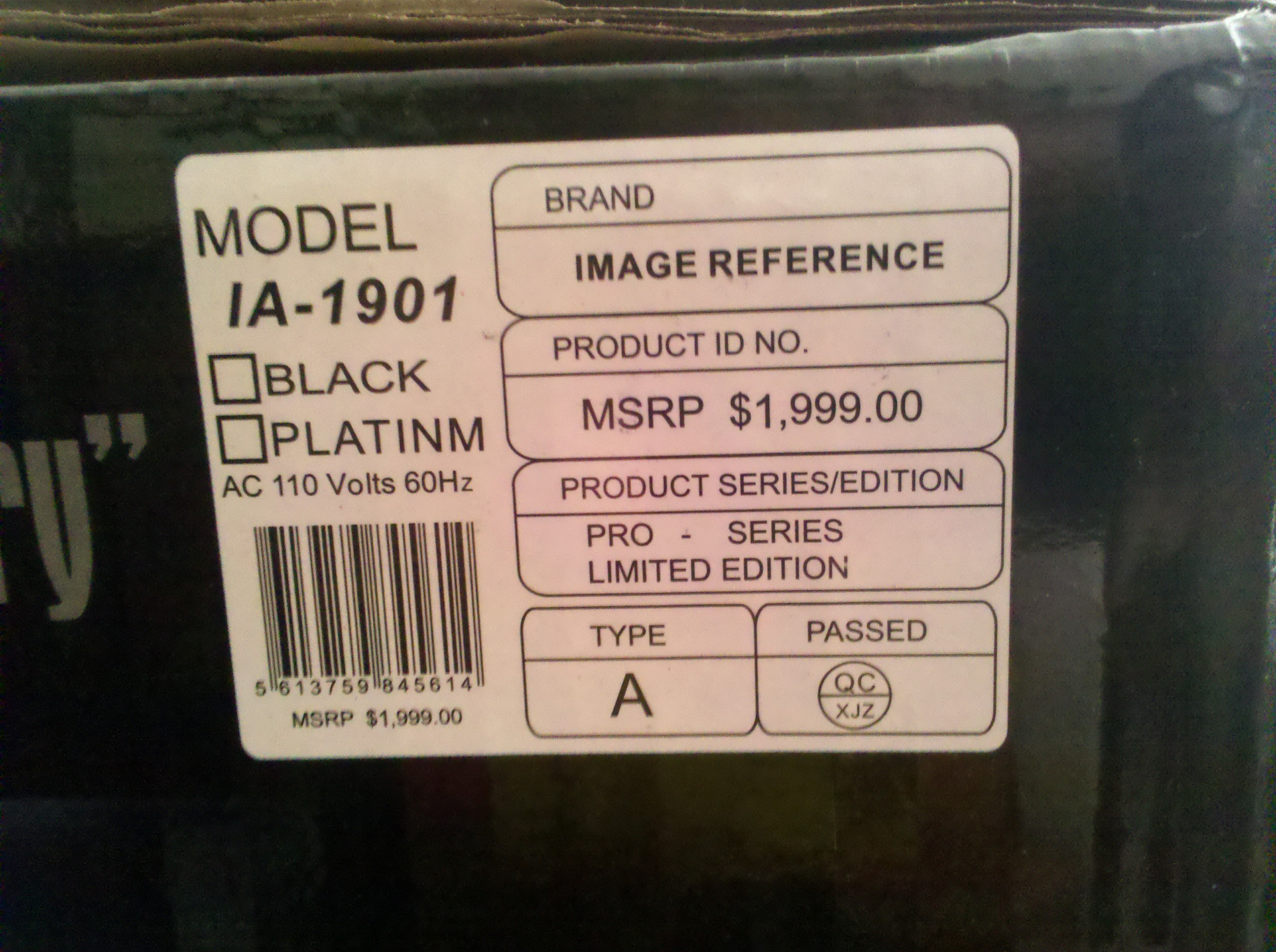 A fake MSRP and product info on a white van speaker scam surround sound product. Much of the info elseware on the box is blatantly false while this lies about being qc passed.